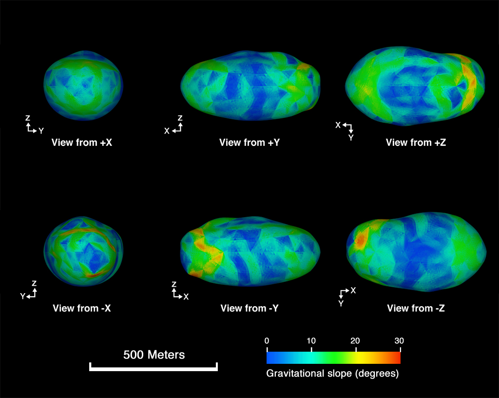 Shape Model of Near-Earth-Asteroid (25143) Itokawa, based on observations with the Goldstone and Arecibo Radars.